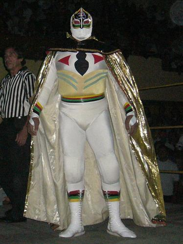 Picture of Luchador Mascara Sagrada